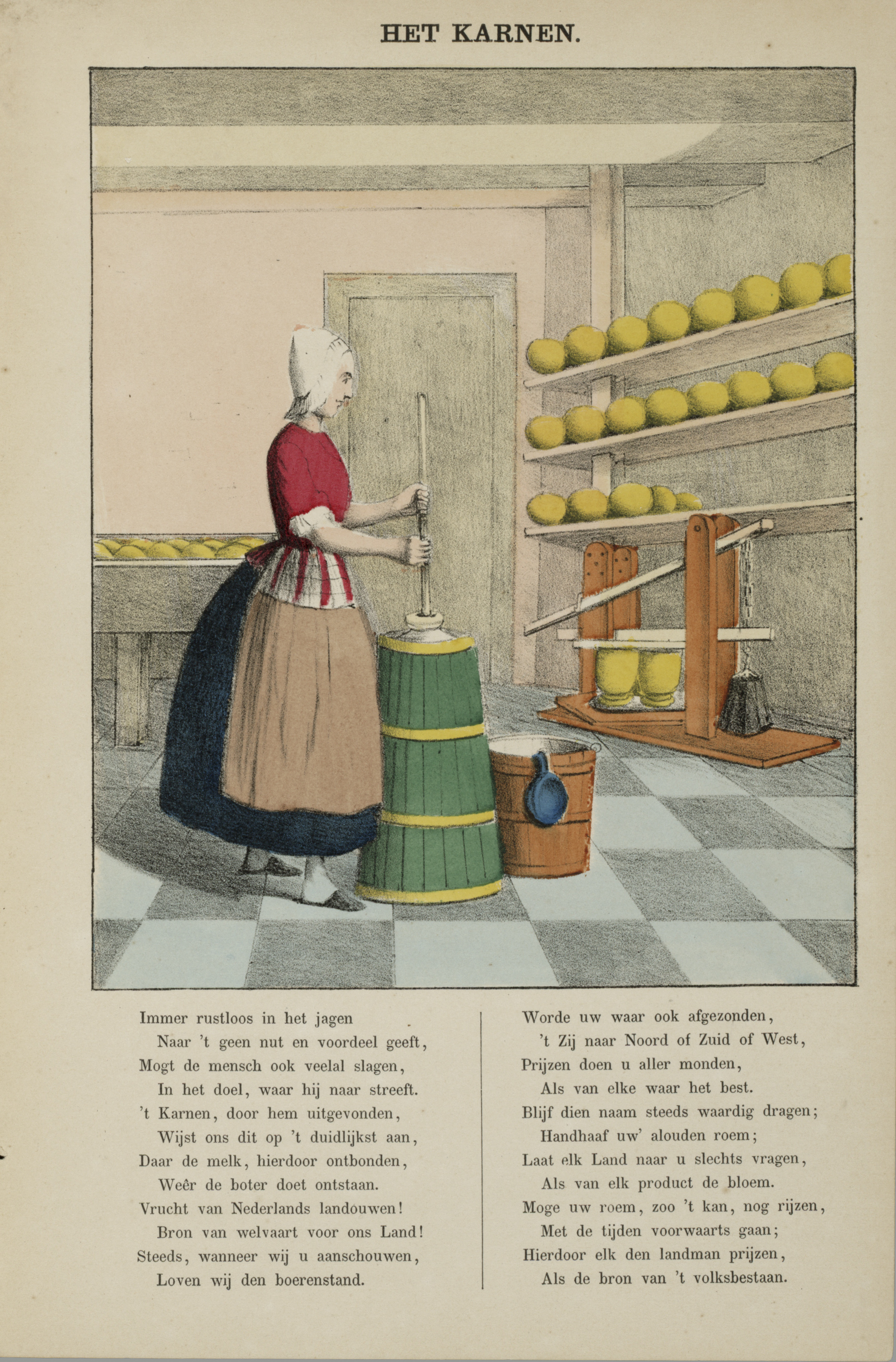 De Boerderij - nieuw prentenboek